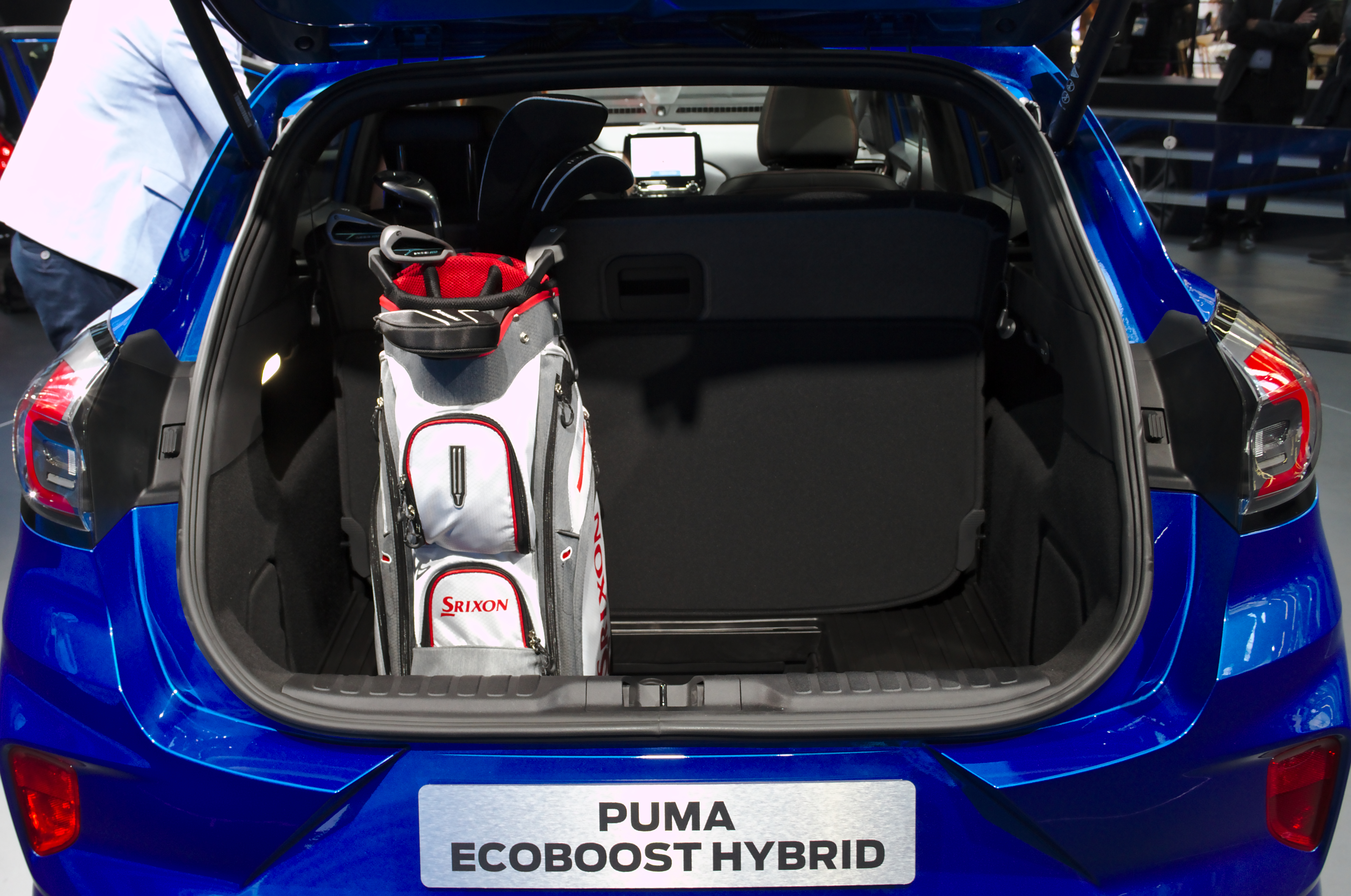 Ford_Puma_(2019) at IAA 2019